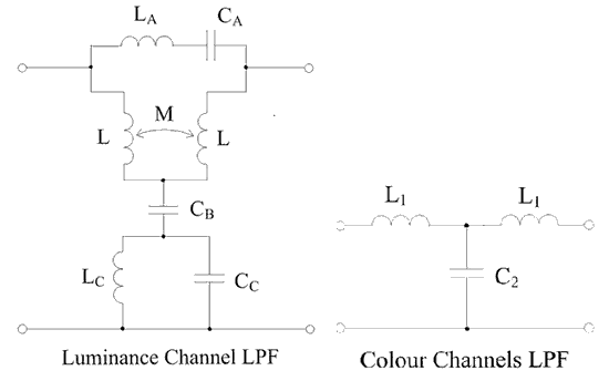 Circuits of filters used in the EMI 2001 camera Other information To be added to article EMI 2001